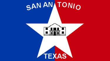 Flag.